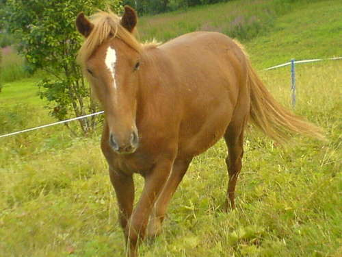 The horse LYNGSHEST or NORDLANDSHEST from Norway. Male, one year old.